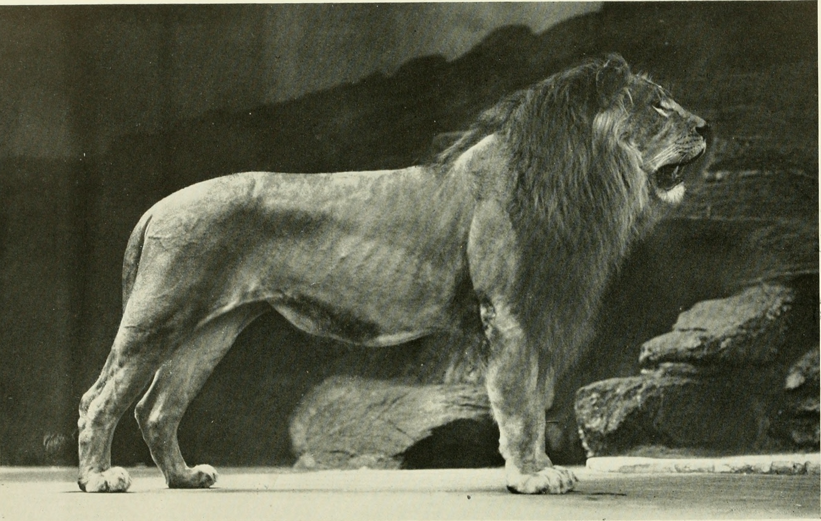 Abyssinian lion Title: Annual report - New York Zoological Society Year: 1914 (1910s) Authors: New York Zoological Society Subjects: Zoology Publisher: New York, The Society Text Appearing Before Image: ' Text Appearing After Image: '